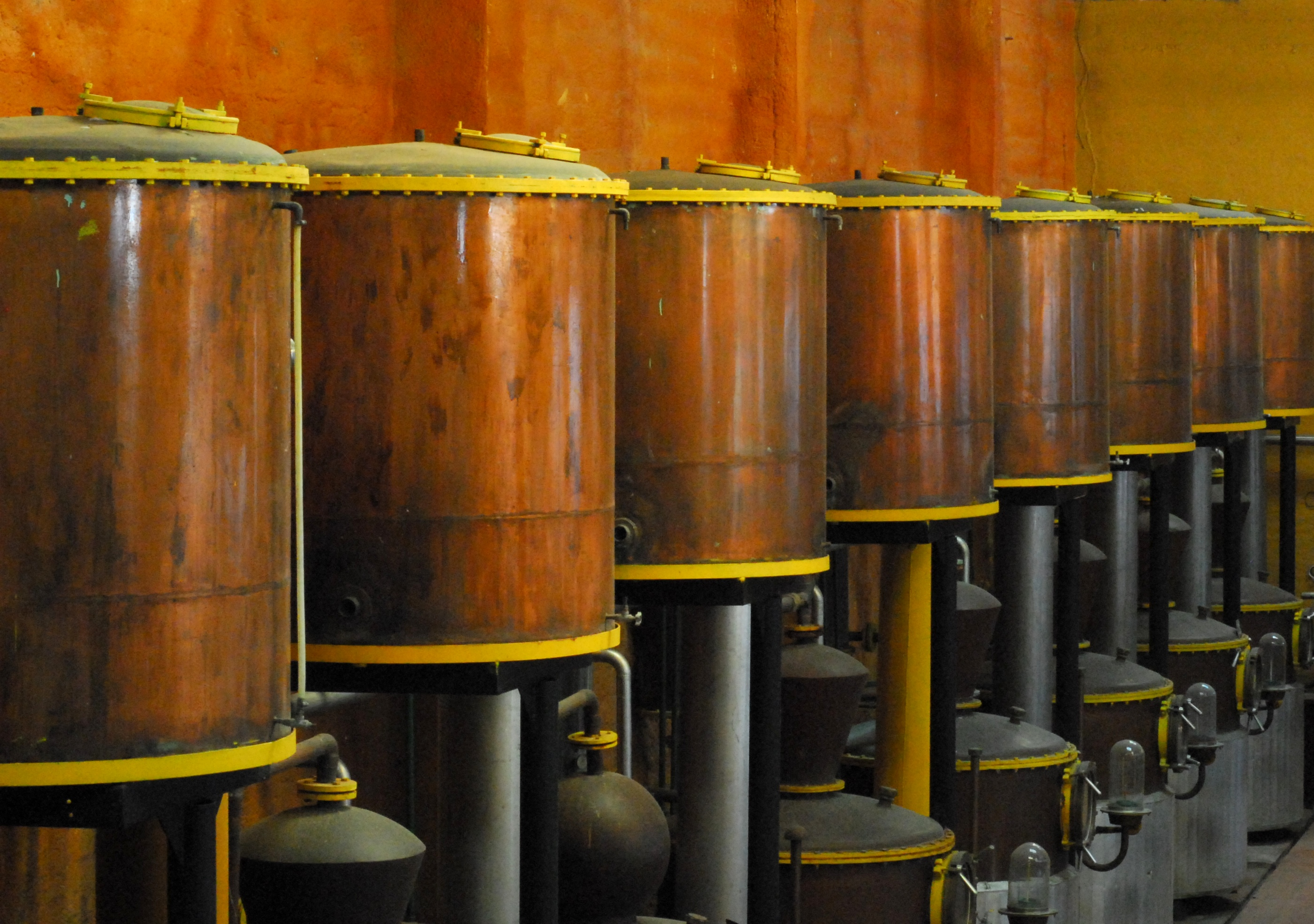 Pisco Capel Factory (Alambics). Vicuña, Chile.